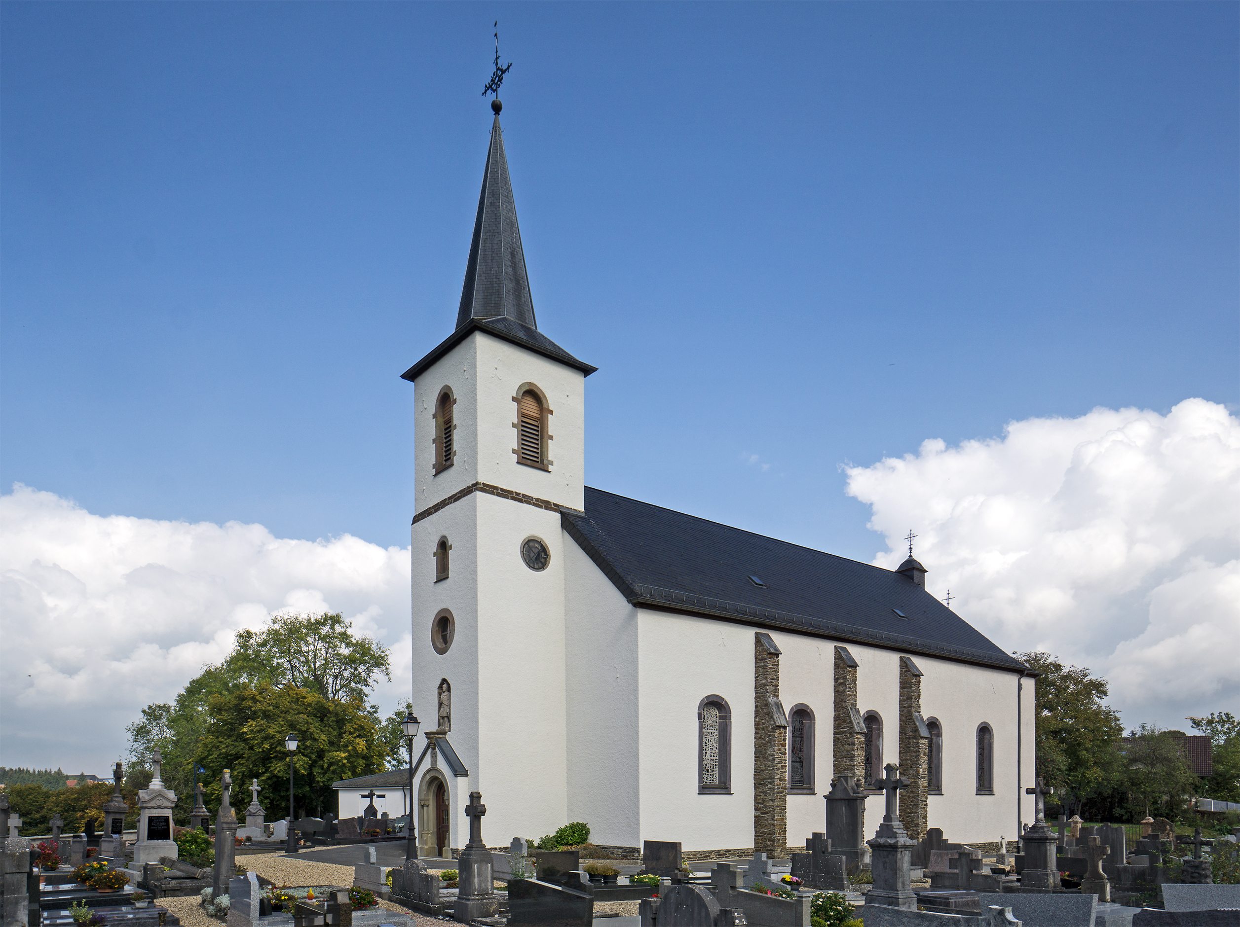 Church of Weiswampach